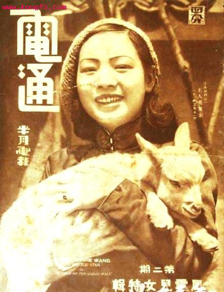 film poster of Children of Troubled Times, actress Wang Renmei